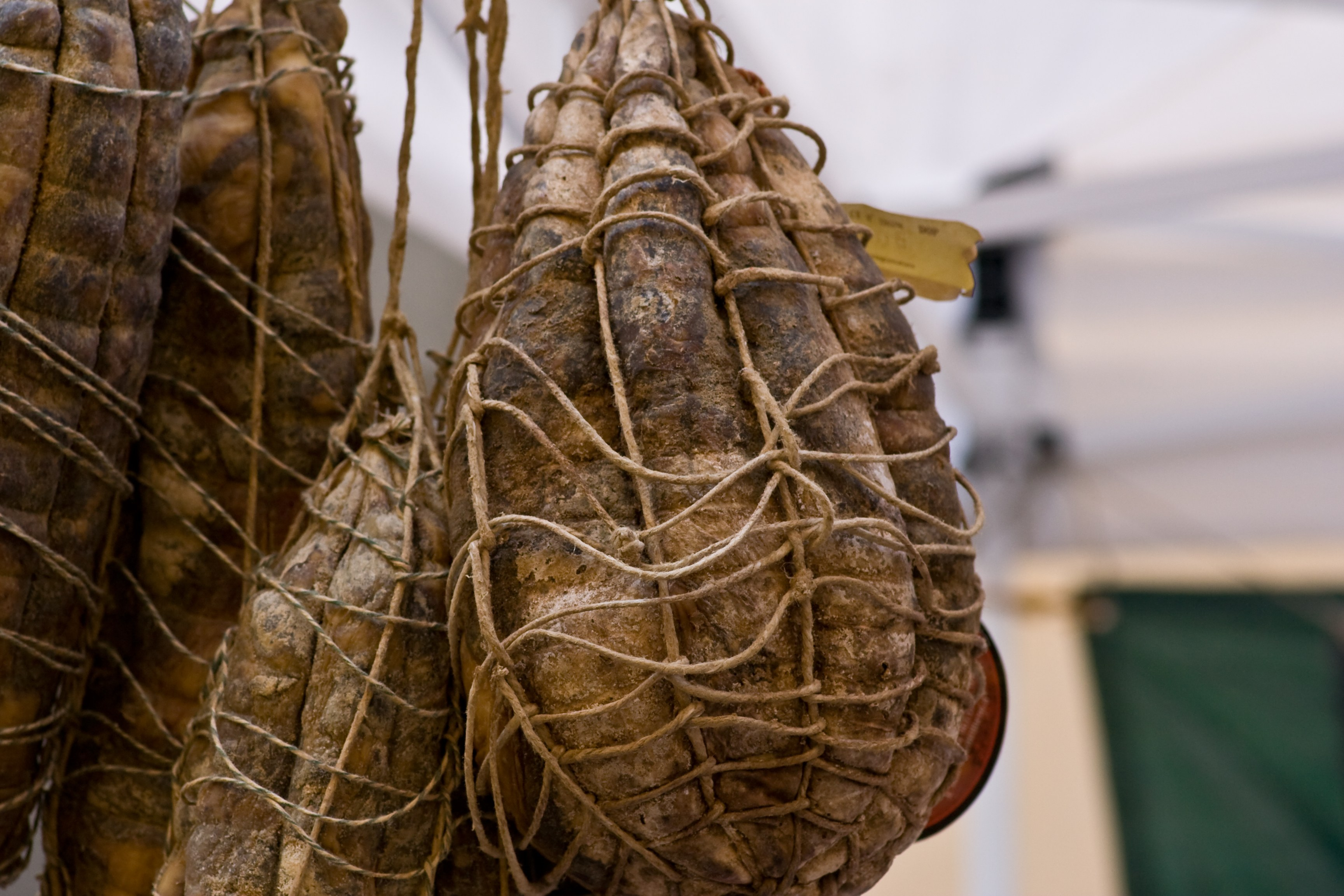 Culatello di Zibello, province of Parma - Italy.